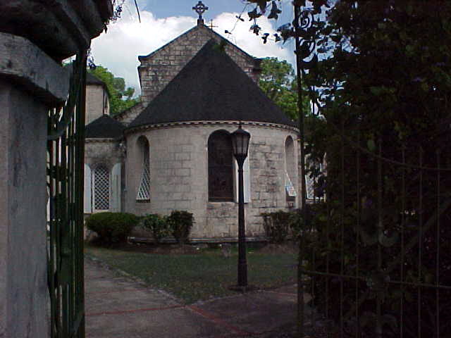 Looking through the Devil's Gate, St James's Church, Holetown, Barbados.